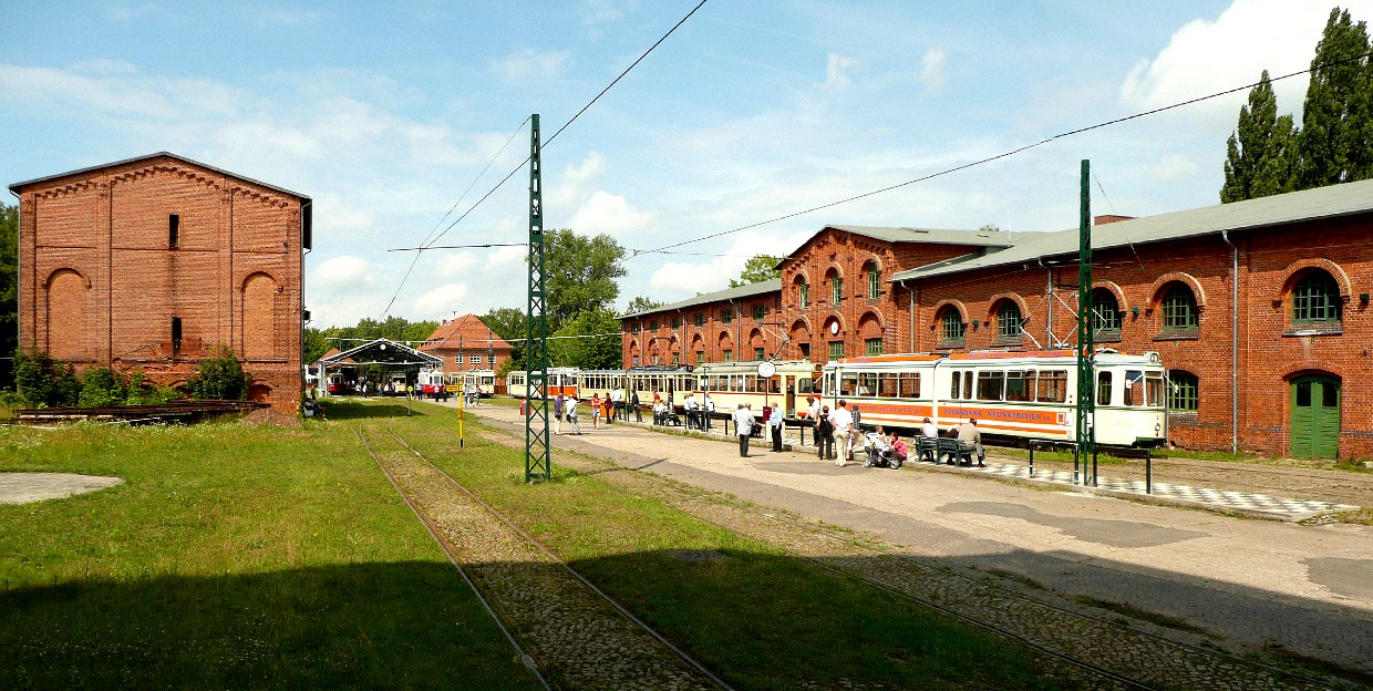 Hanover Tram Museum at Wehmingen